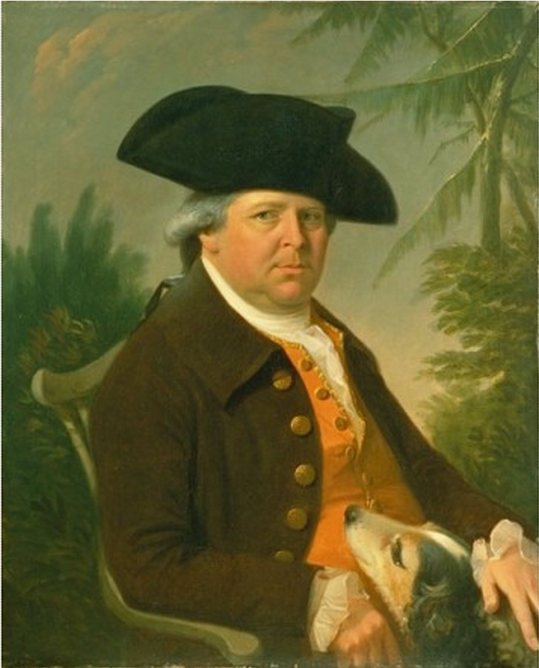 Description from : William Tate, a well-known portrait-painter, was born and worked in Liverpool, a port with which Lancastrian merchants like Mr Dodshon Foster had strong connections. Portrait of Mr Dodshon Foster of Lancaster by William Tate, 1770 - 1790.